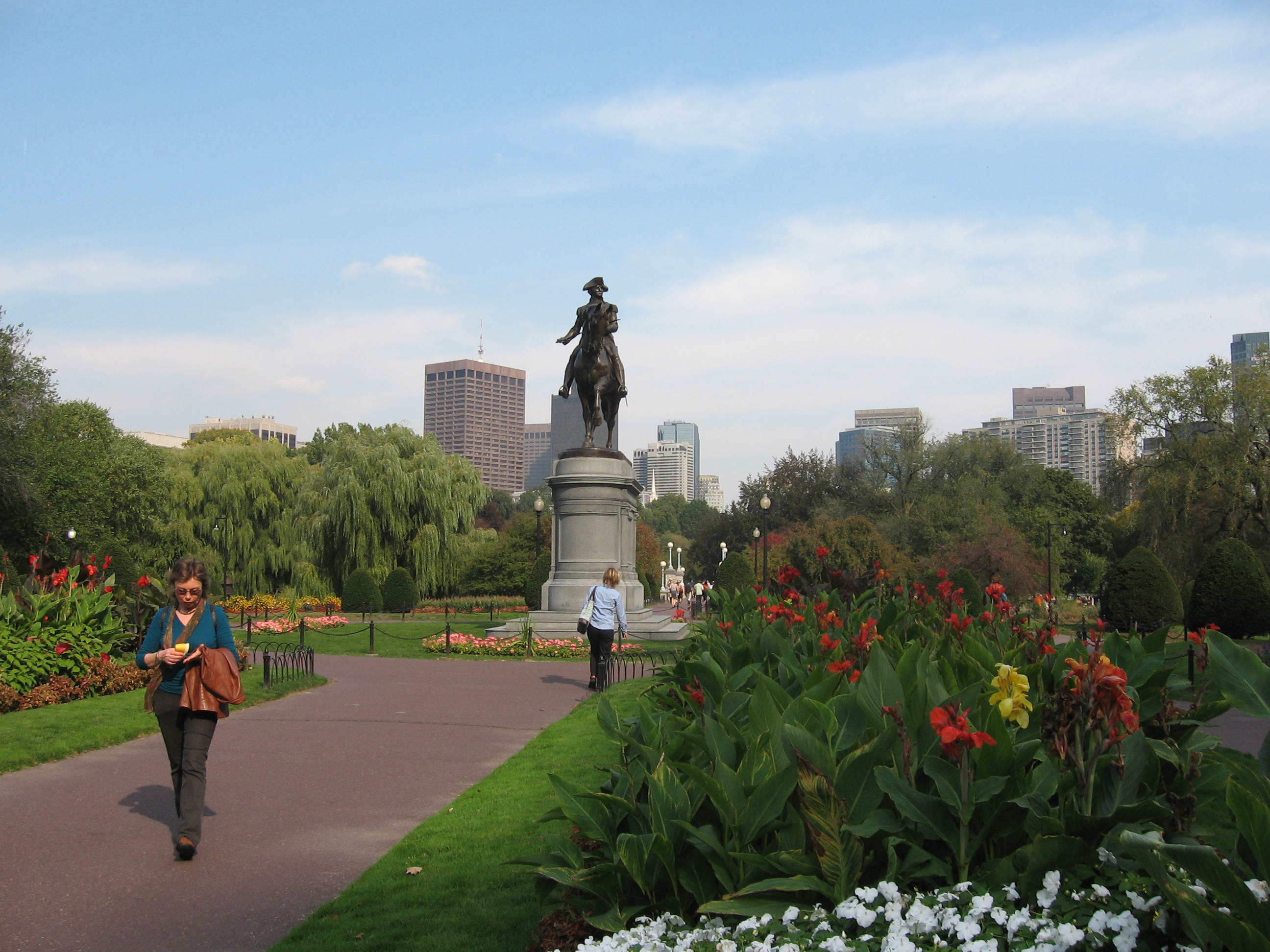 Boston Public Garden, Boston, Massachusetts